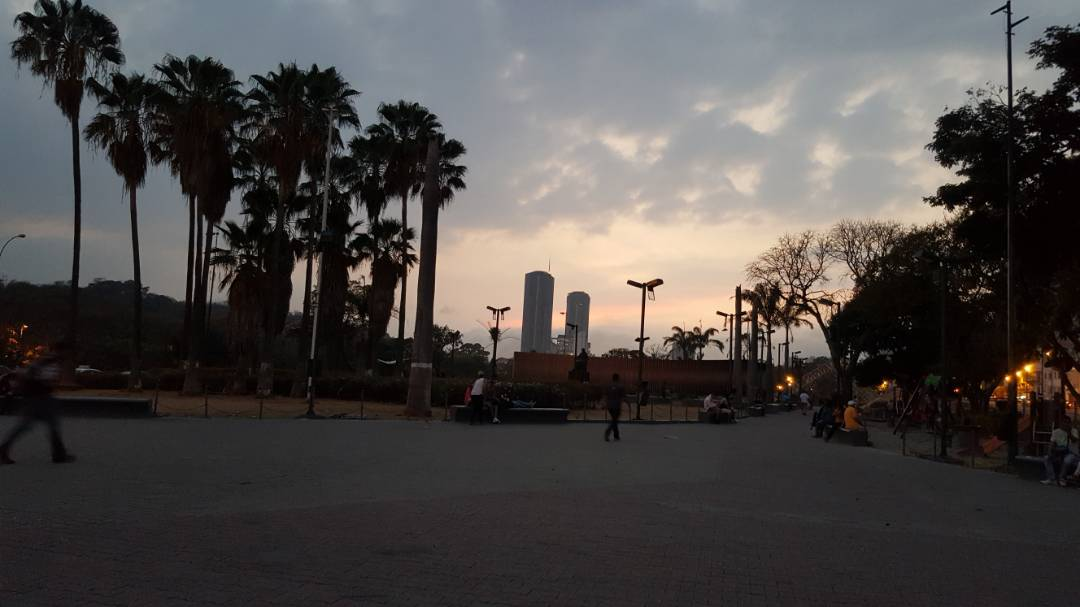 Plaza Venezuela. Parque Central Complex. Marcos Kirschstein